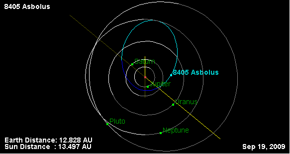 8405 Asbolus orbit